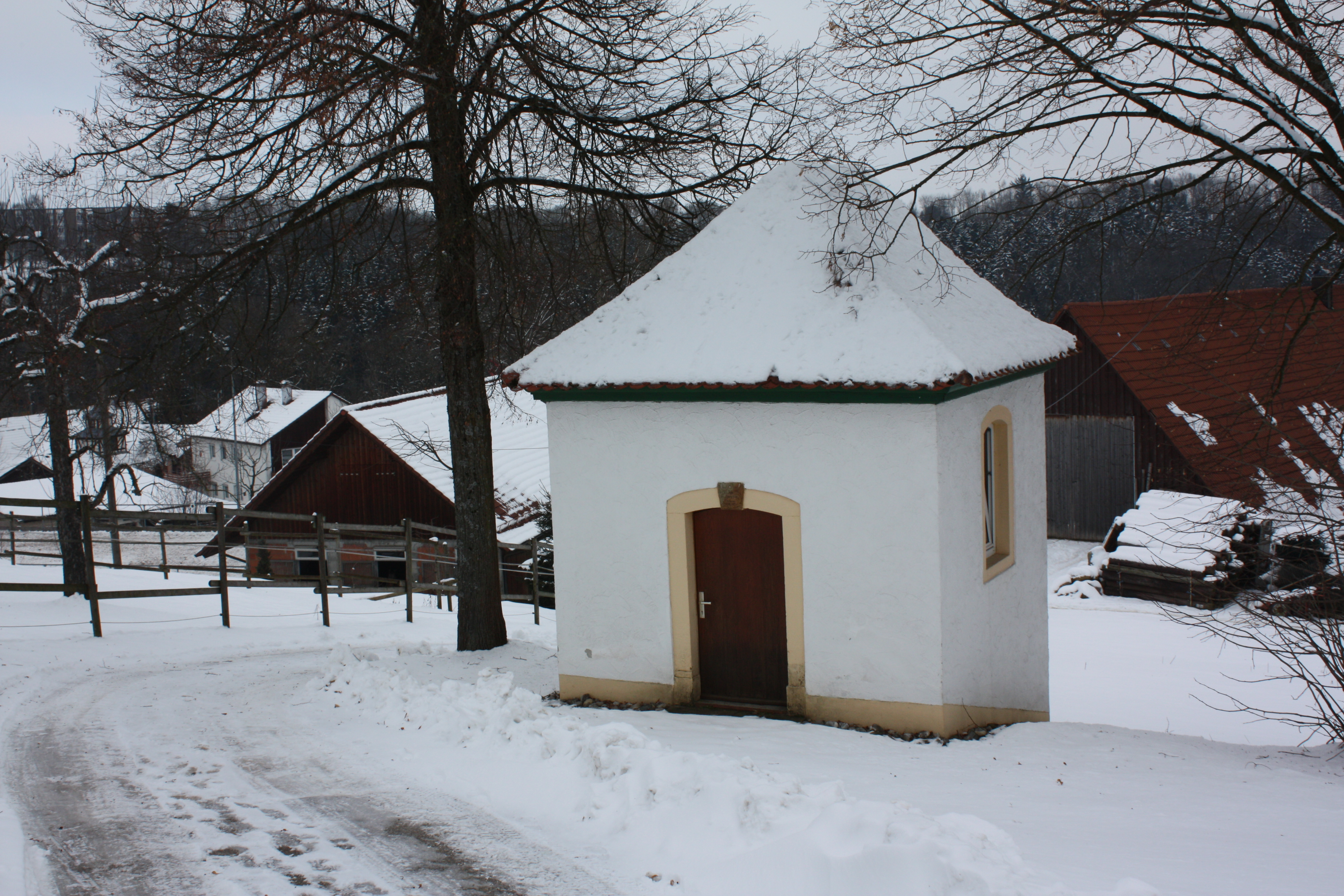 Rehnenhofkapelle (Rehnenhof Chapel; "Feldkapelle zur Heiligen Dreifaltigkeit und Schmerzhaften Muttergottes") in Rehnenhof-Wetzgau, part of Schwäbisch Gmünd, Germany. Build in 1801, in the Background the Rehnenhof Farm.